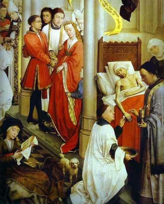 Seven Sacraments Altarpiece; detail, right wing - Ordination, Marriage, and Extreme Unction